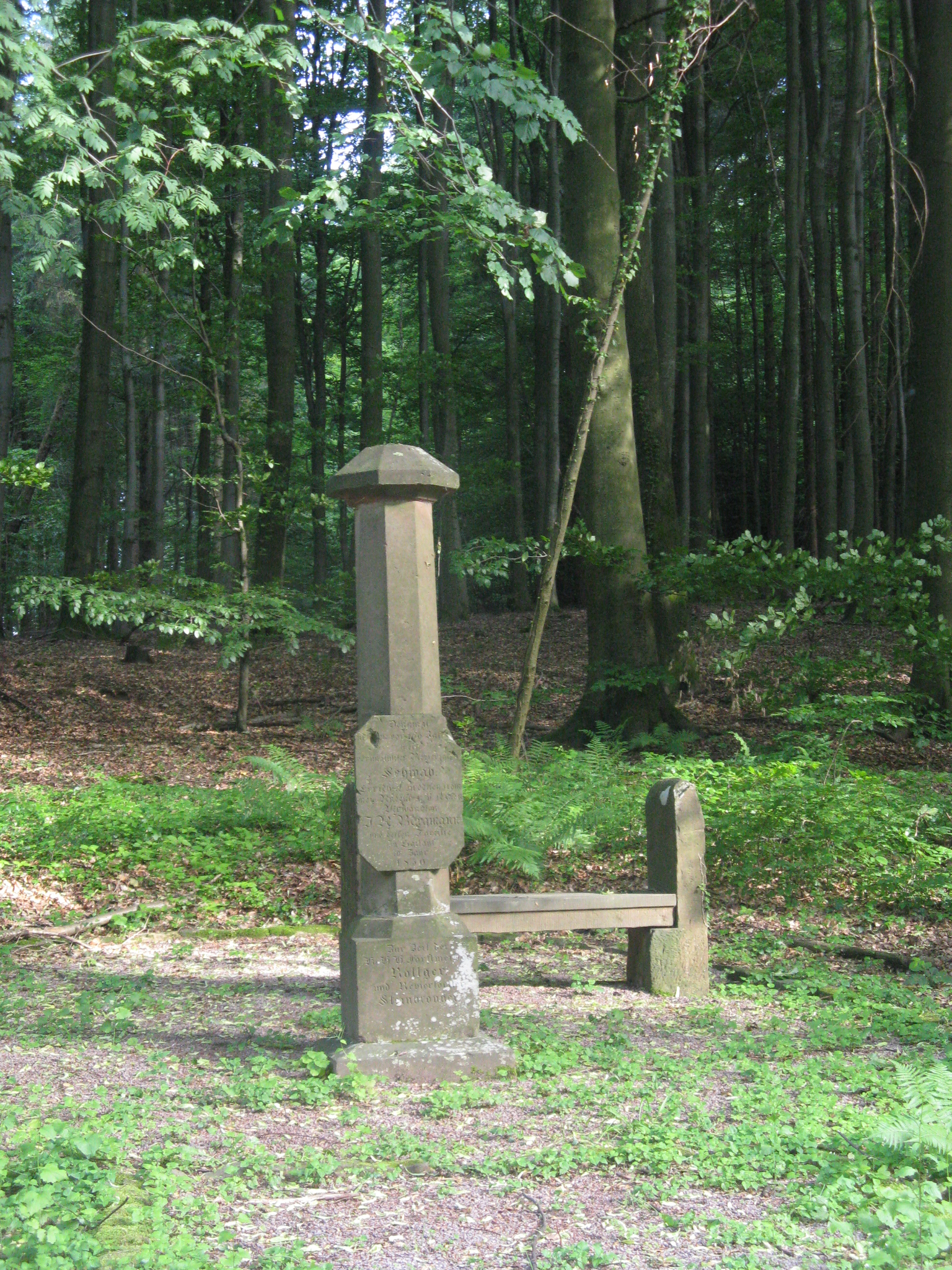 Monument for hunter Schwab who died in an accident, around 1850, near Sailauf/Spessart, Germany